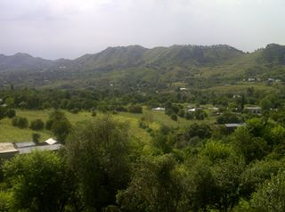 Taken by myself, URL 10421194_10202686450498545_464687512272085674_n.jpg